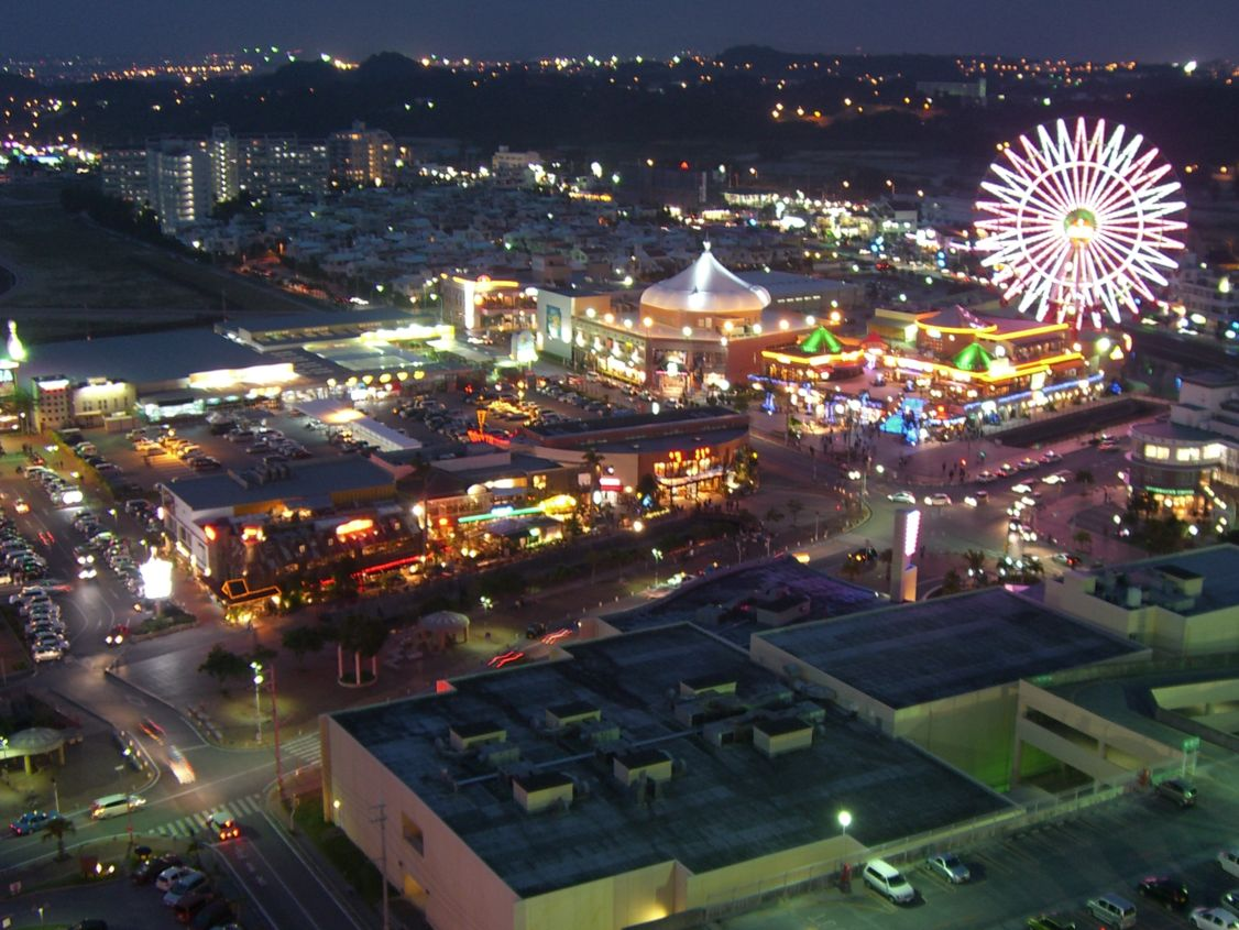 Mihama Town Resort American Village in Okinawa, Japan.(沖縄県にあるアメリカンビレッジ)